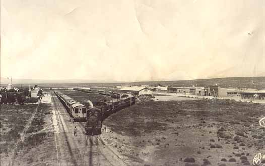 View of the Zapala railway station around 1915.